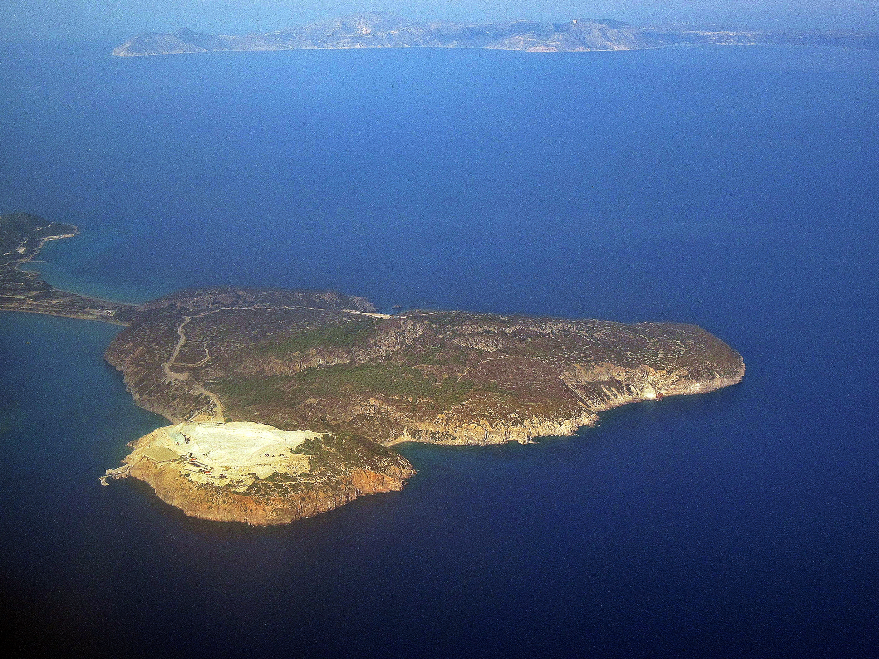 Aerial photograph of Gyali, Greece